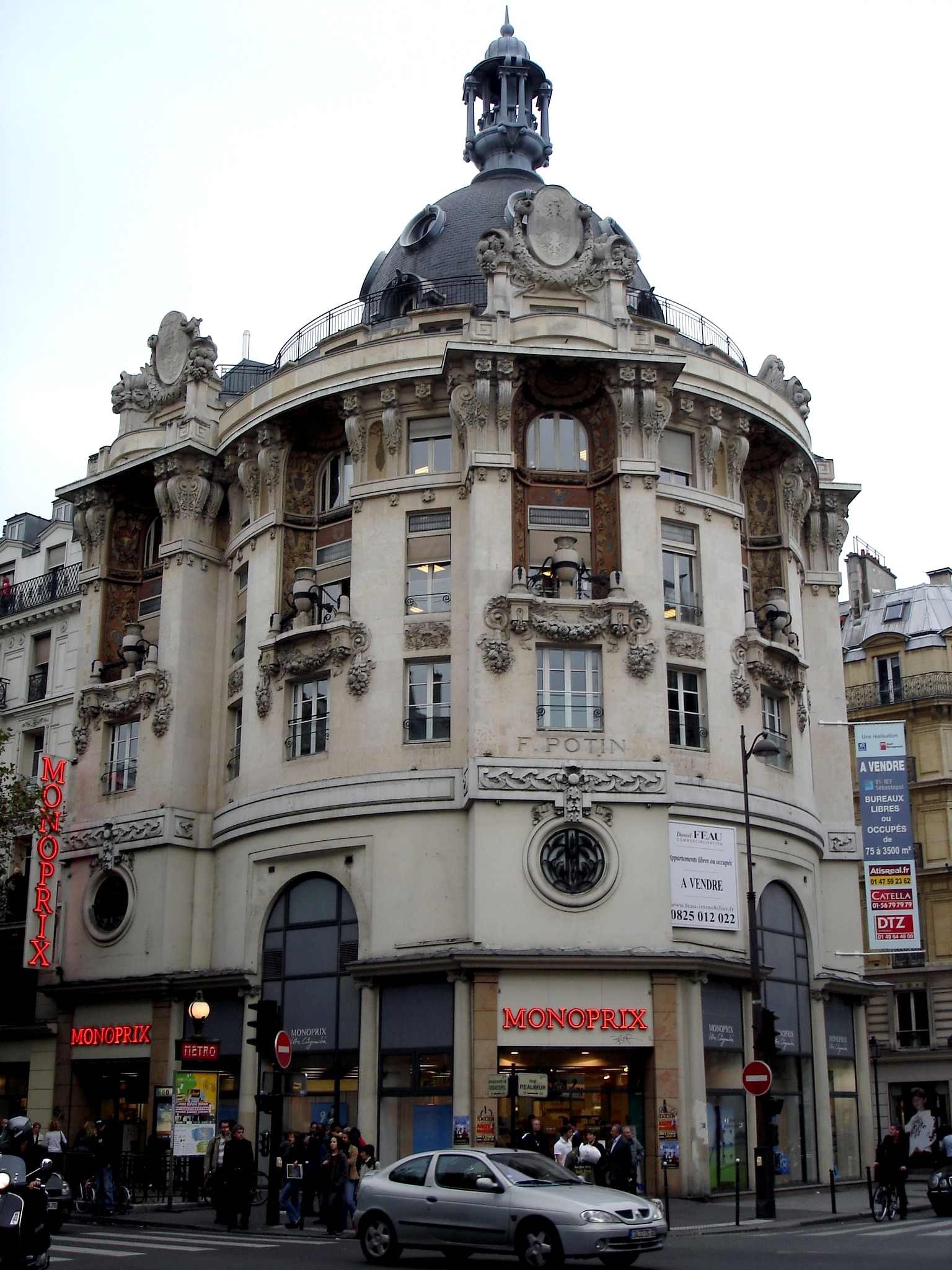 51 Rue réaumur (Paris). A Monoprix supermarket. Formerly the head office of defunct chain store Félix Potin - General view